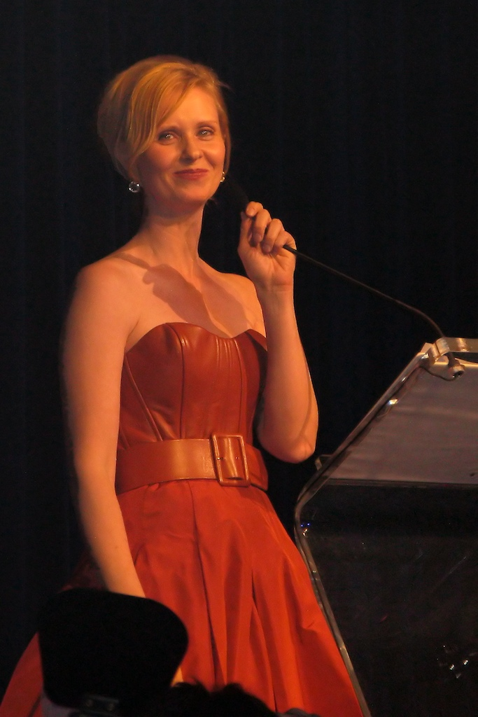 Cynthia Nixon as Honorary Chair of the The Imperial Court of New York's annual Night of a Thousand Gowns Coronation Ball in Times Square.